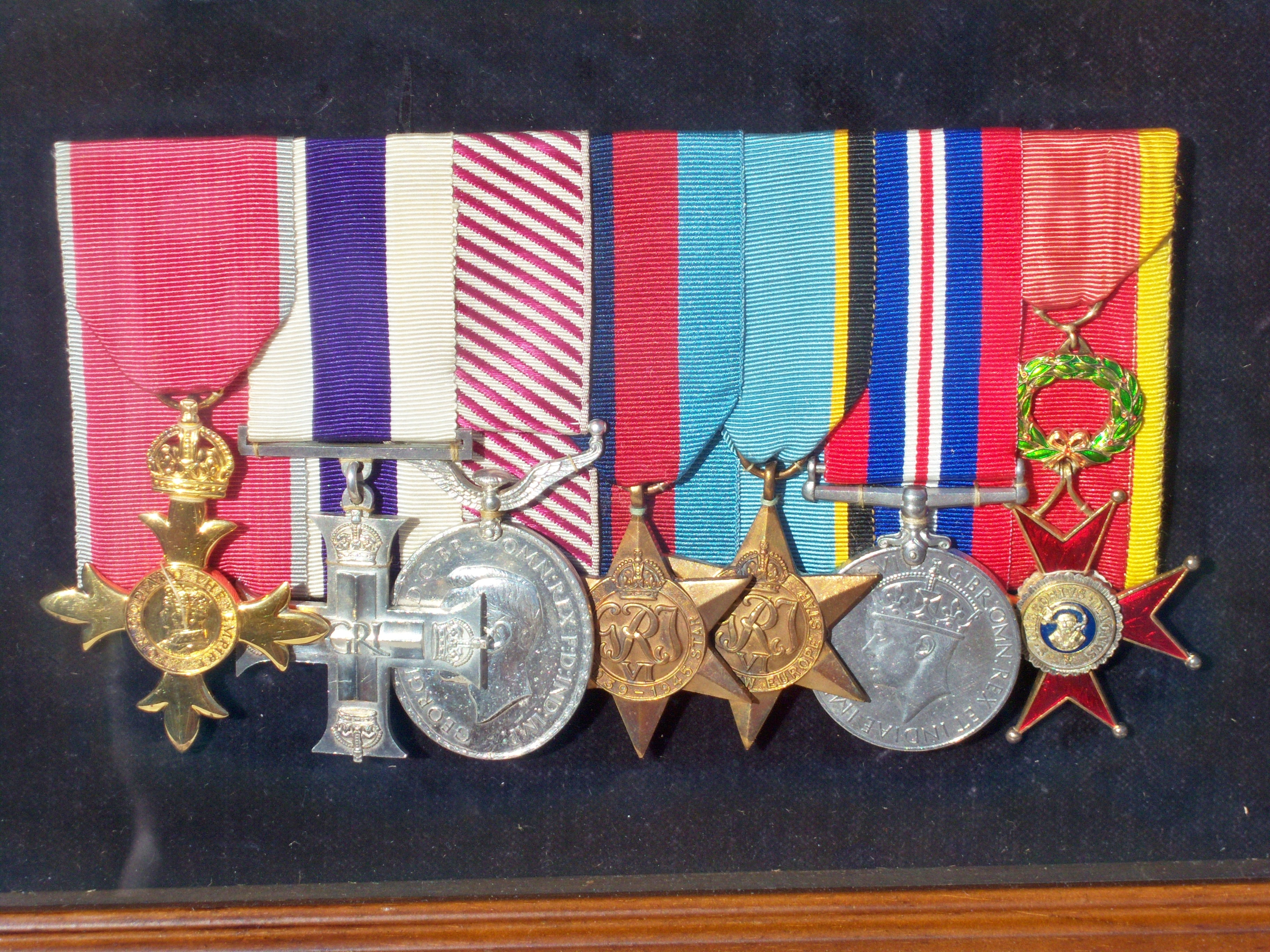 Unique medal group of Dominic Bruce, the only person to be awarded both the Military Cross and the Air Force Medal